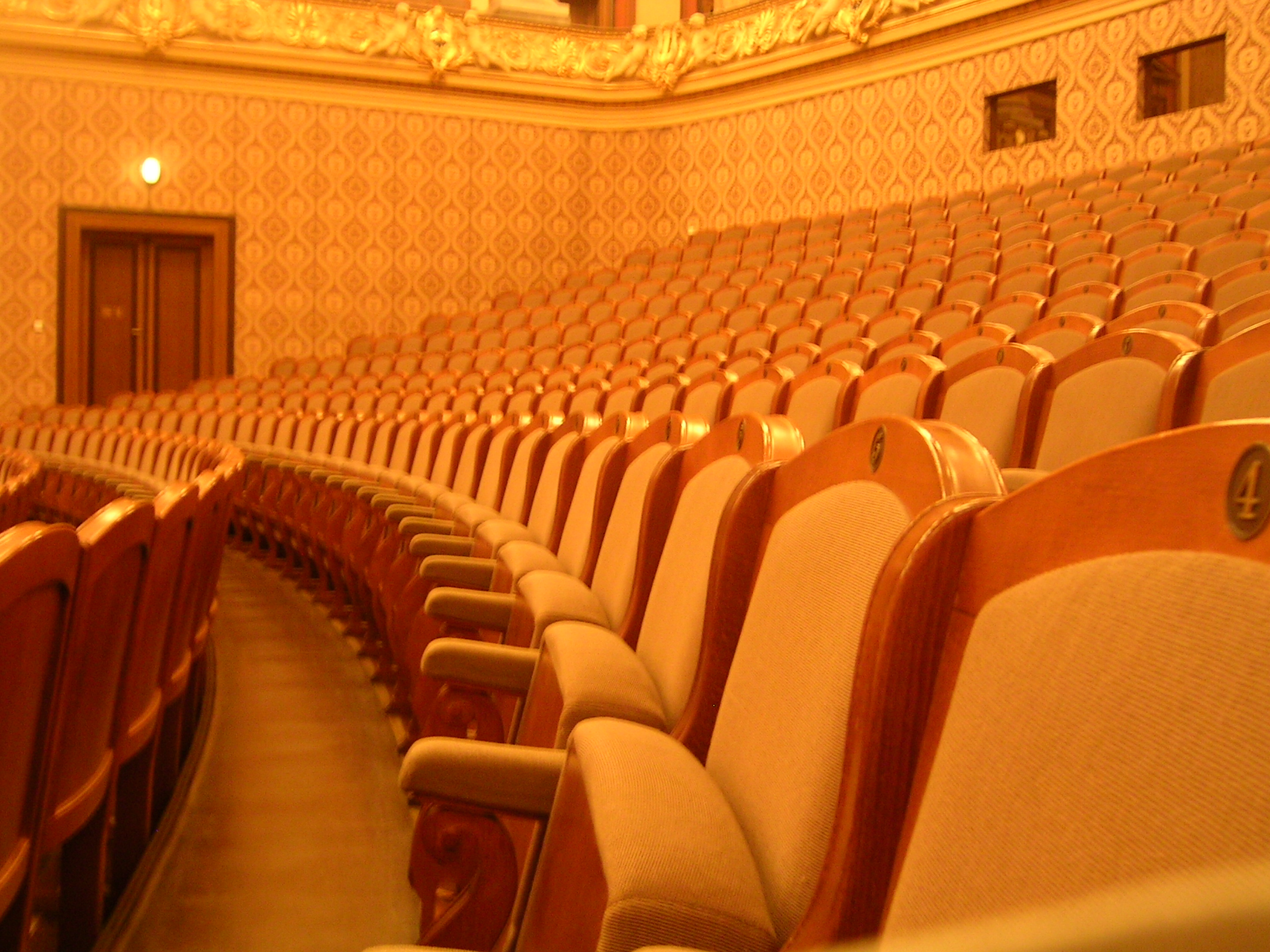 Rudolfinum - Dvorak Hall